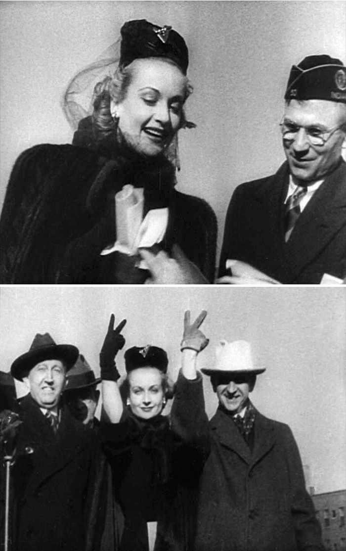 Composite of two screenshots showing 1.Carole Lombard signing autograph and 2. Lombard with Will Hays and Governor of Indiana, H. F Schricker. Both taken on January 15, 1942 during a war bonds tour in Indianopolis